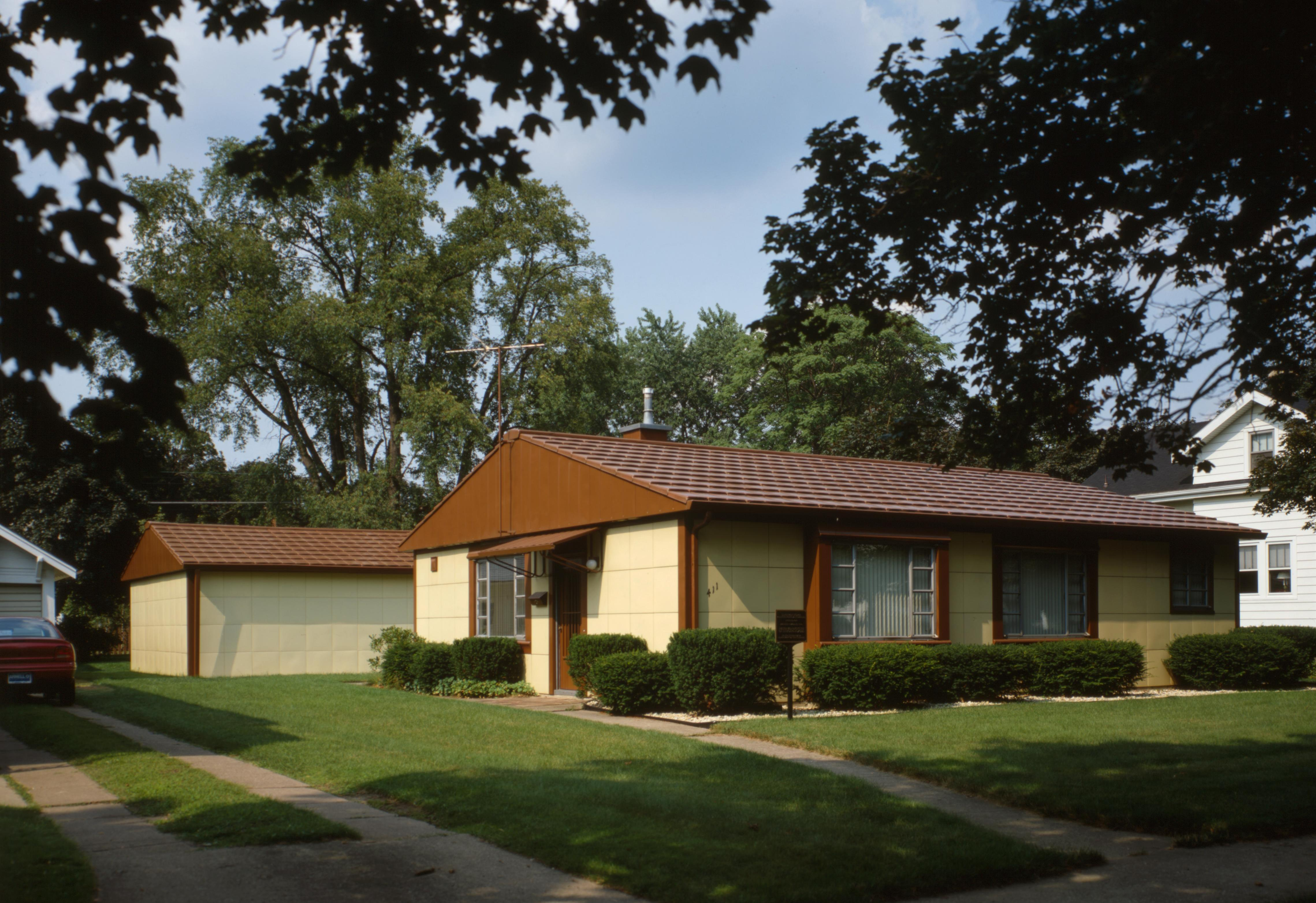 Streetside view of the Norris and Harriet Coambs Lustron House, located at 411 Bowser Avenue in Chesterton, Indiana, United States. Built in 1950, it is listed on the National Register of Historic Places.